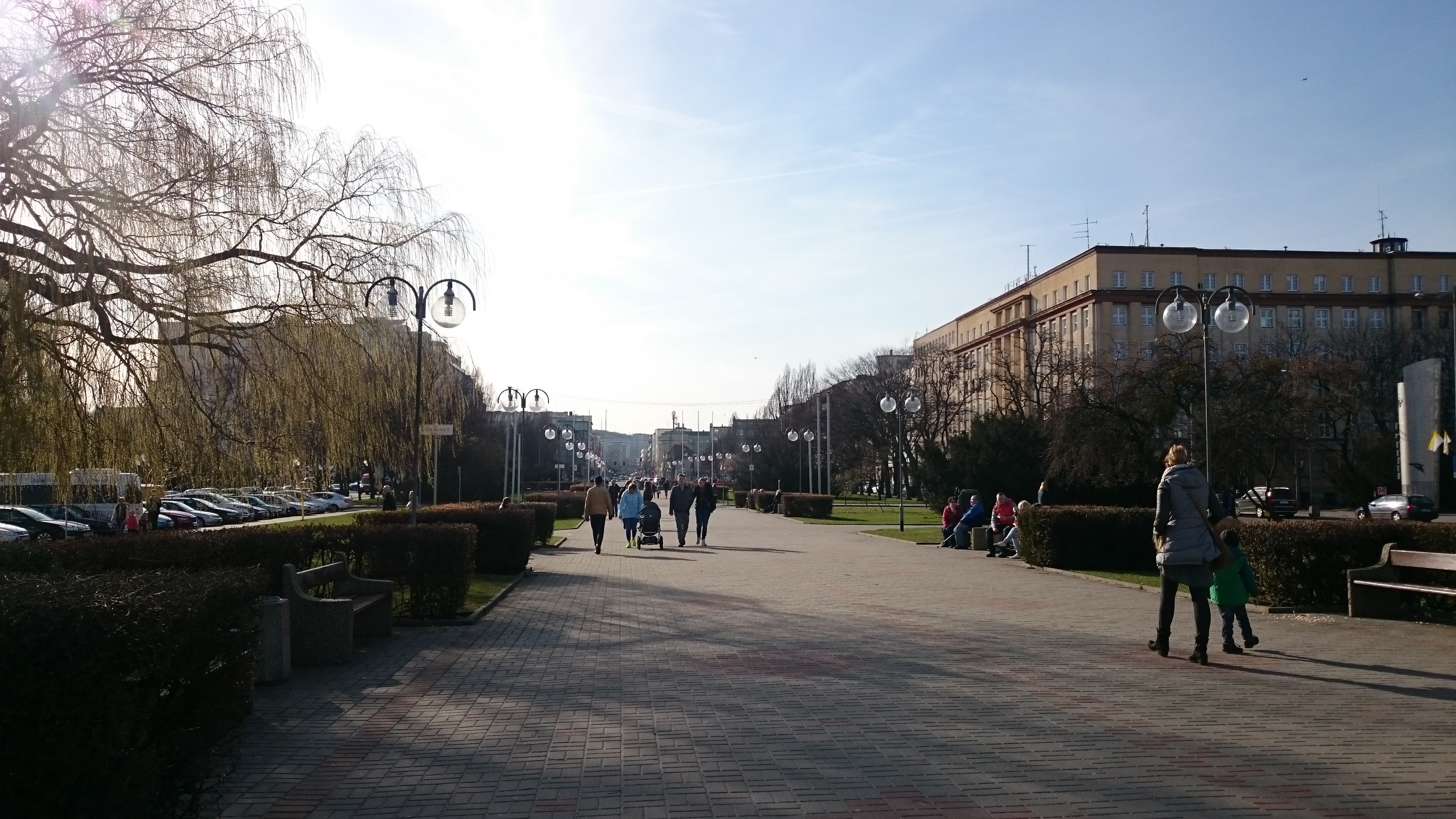 Skwer Kościuszki in Gdynia.